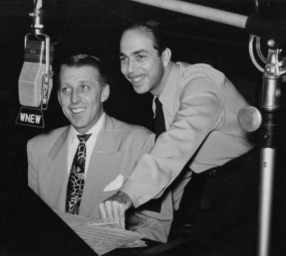 Publicity photo of Martin Block and musician Stan Kenton at the WNEW radio studio.